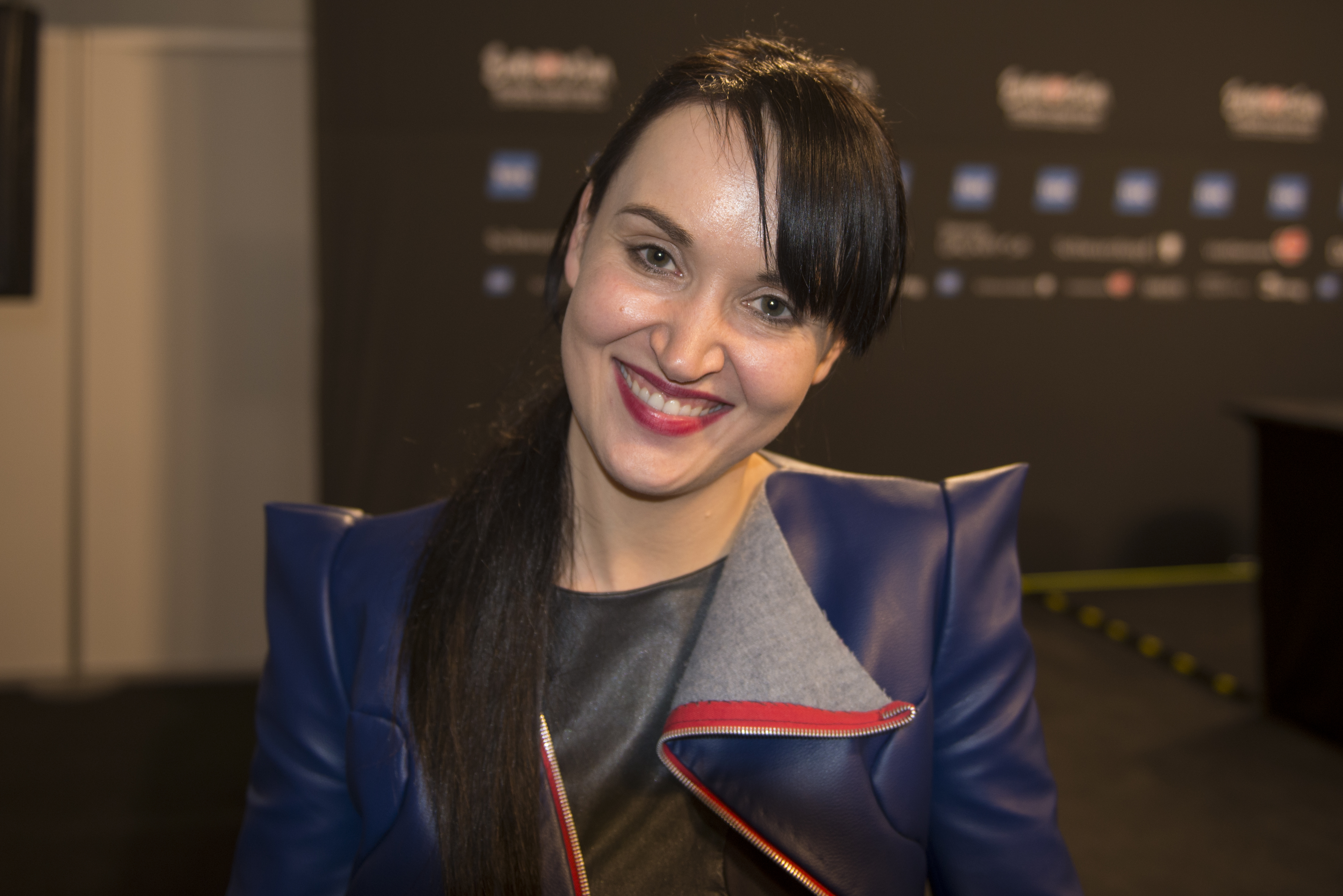 Tinkara Kovač at a Meet & Greet during the Eurovision Song Contest 2014 Copenhagen. (Help translate this text)